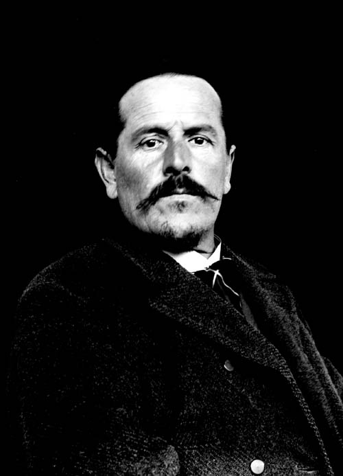 Portrait of Josef Moroder-Lusenberg